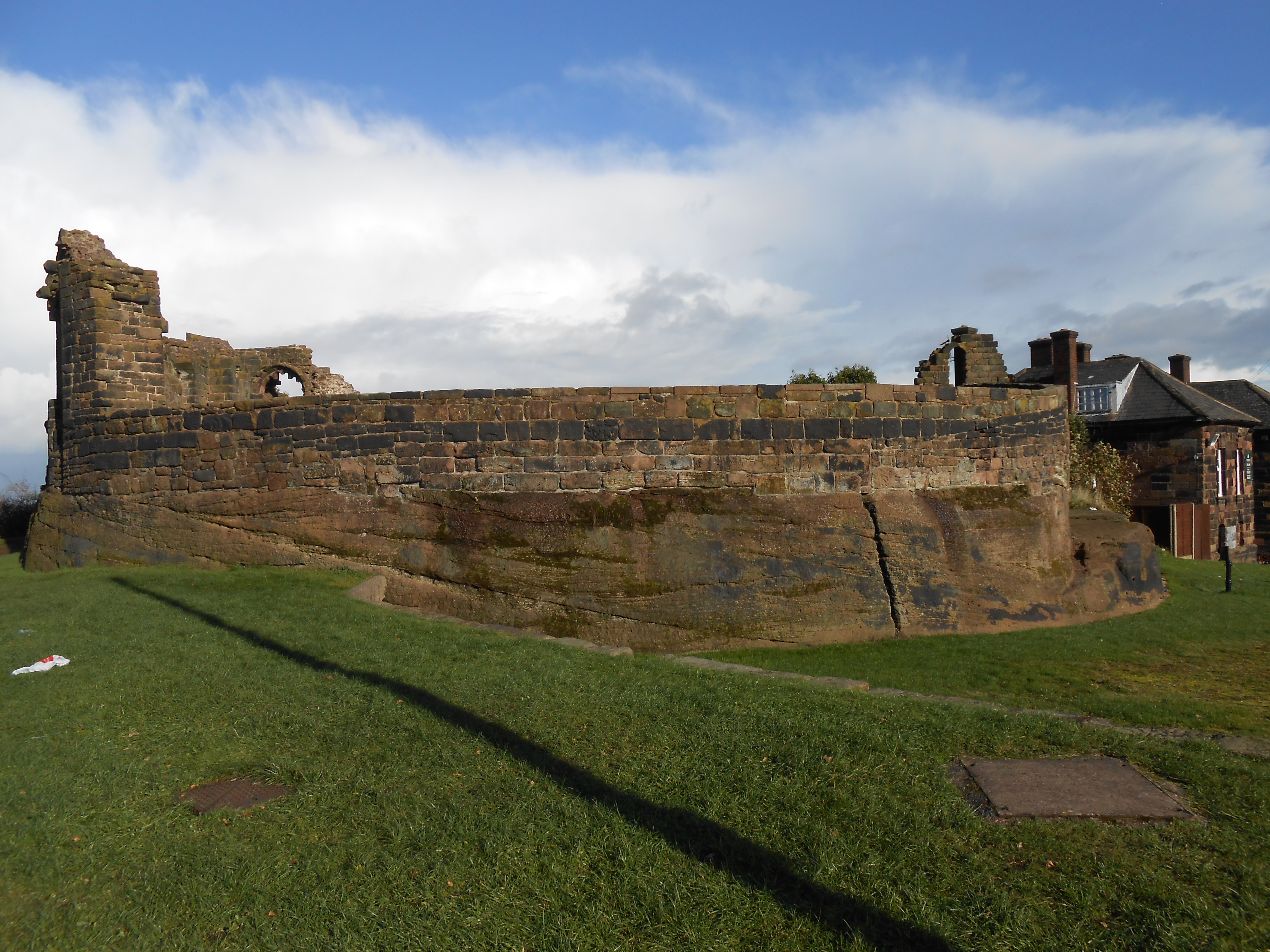 Photo taken at Halton Castle, Cheshire, England.